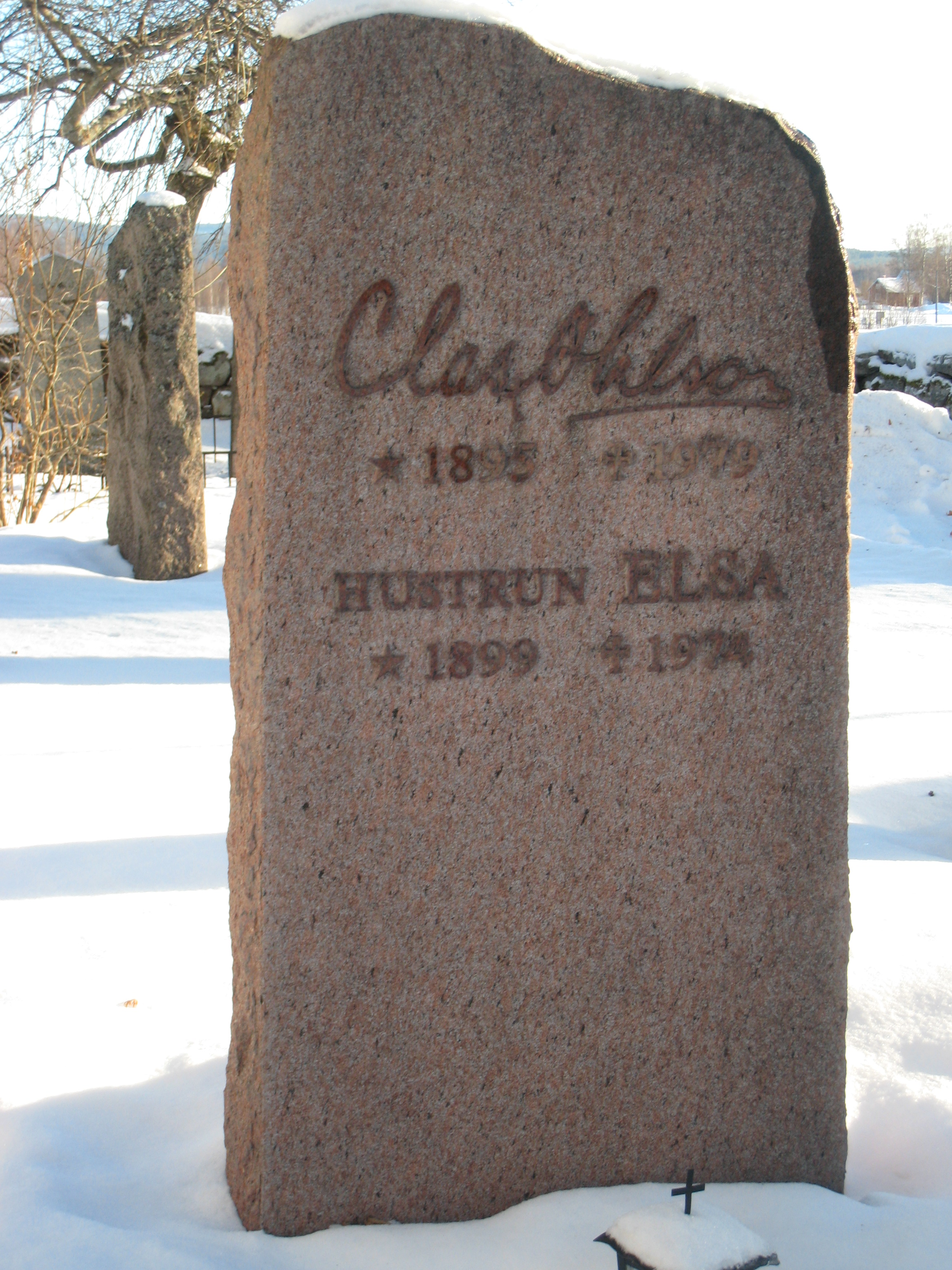 Grave of Swedish entrepreneur Clas Ohlson, at Ål's church, Insjön, Dalarna, Sweden.